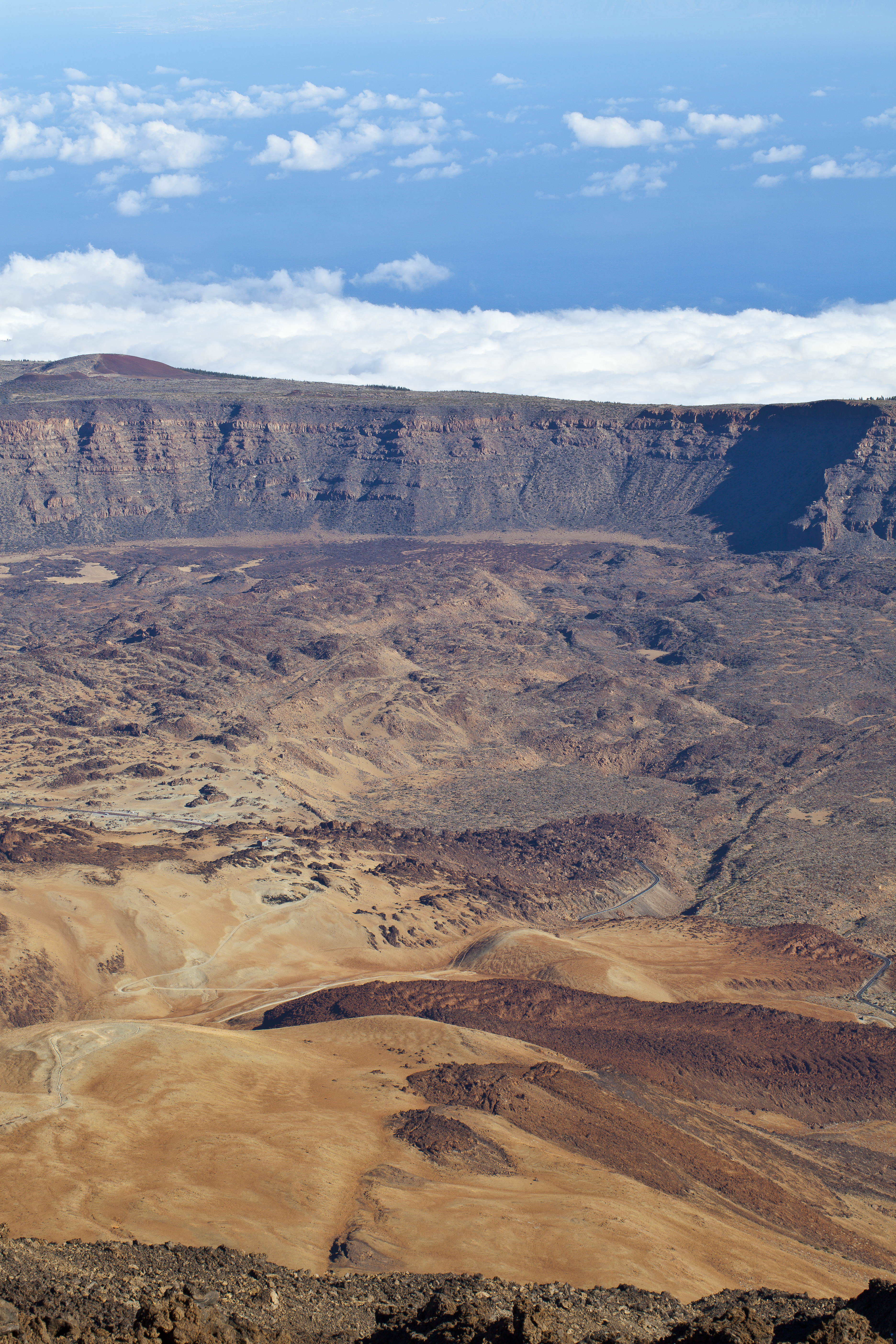 Caldera de las Cañadas, National Park of Teide, Santa Cruz de Tenerife, Spain